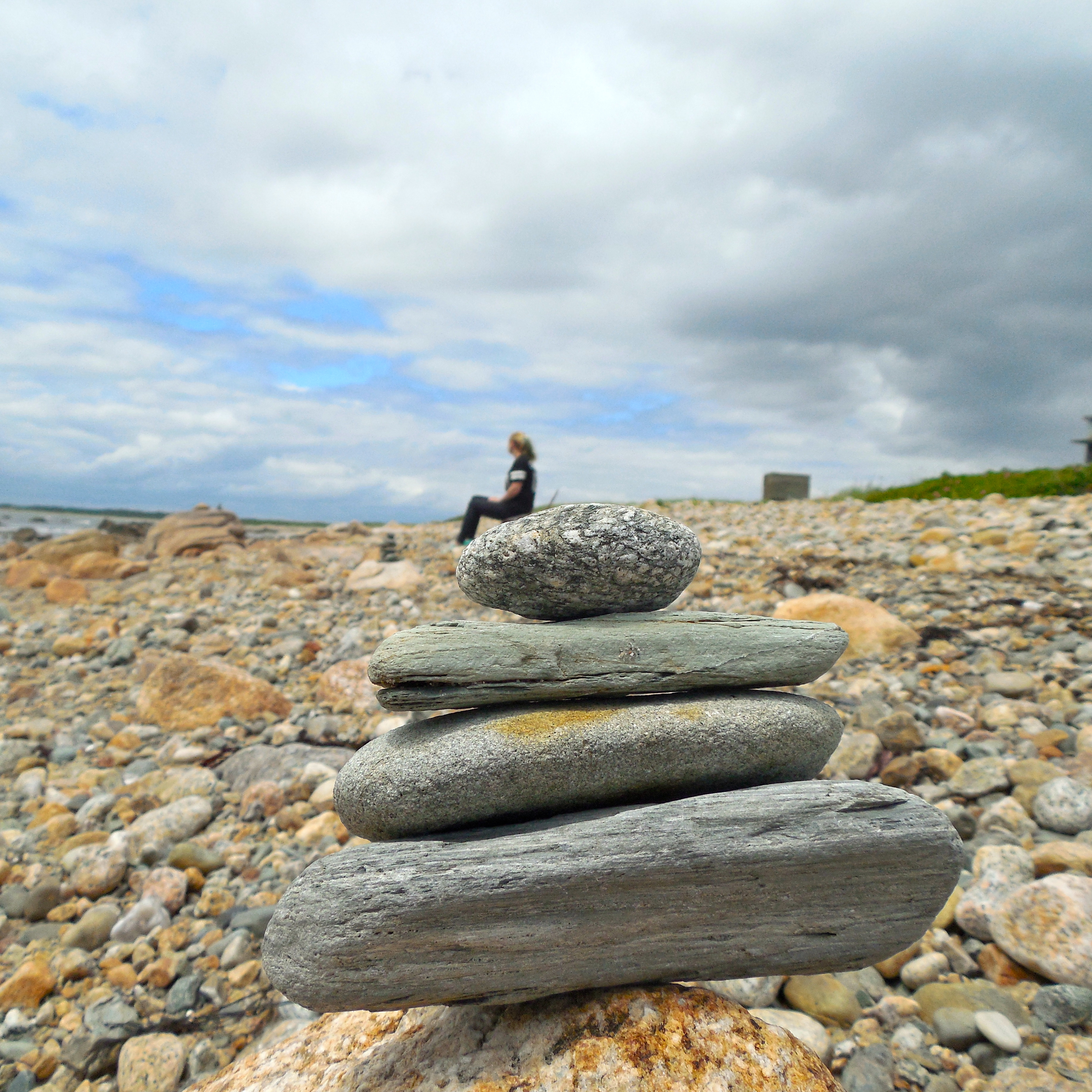 Low Point of View (POV) forced perspective of stacked stones.